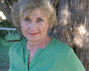 This is a photograph of the author Carolyn Haines on her property.